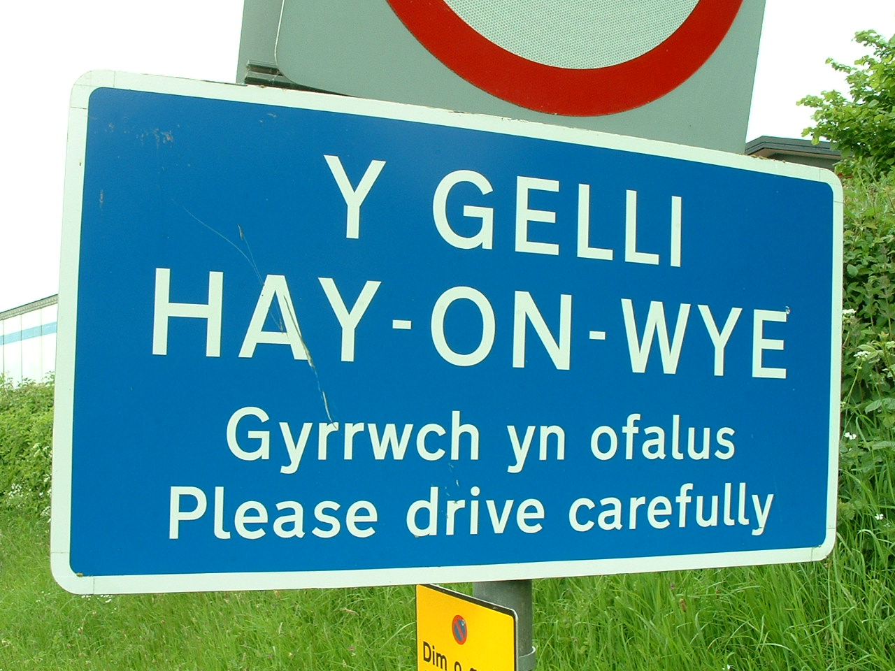 Namesign of Hay-on-Wye